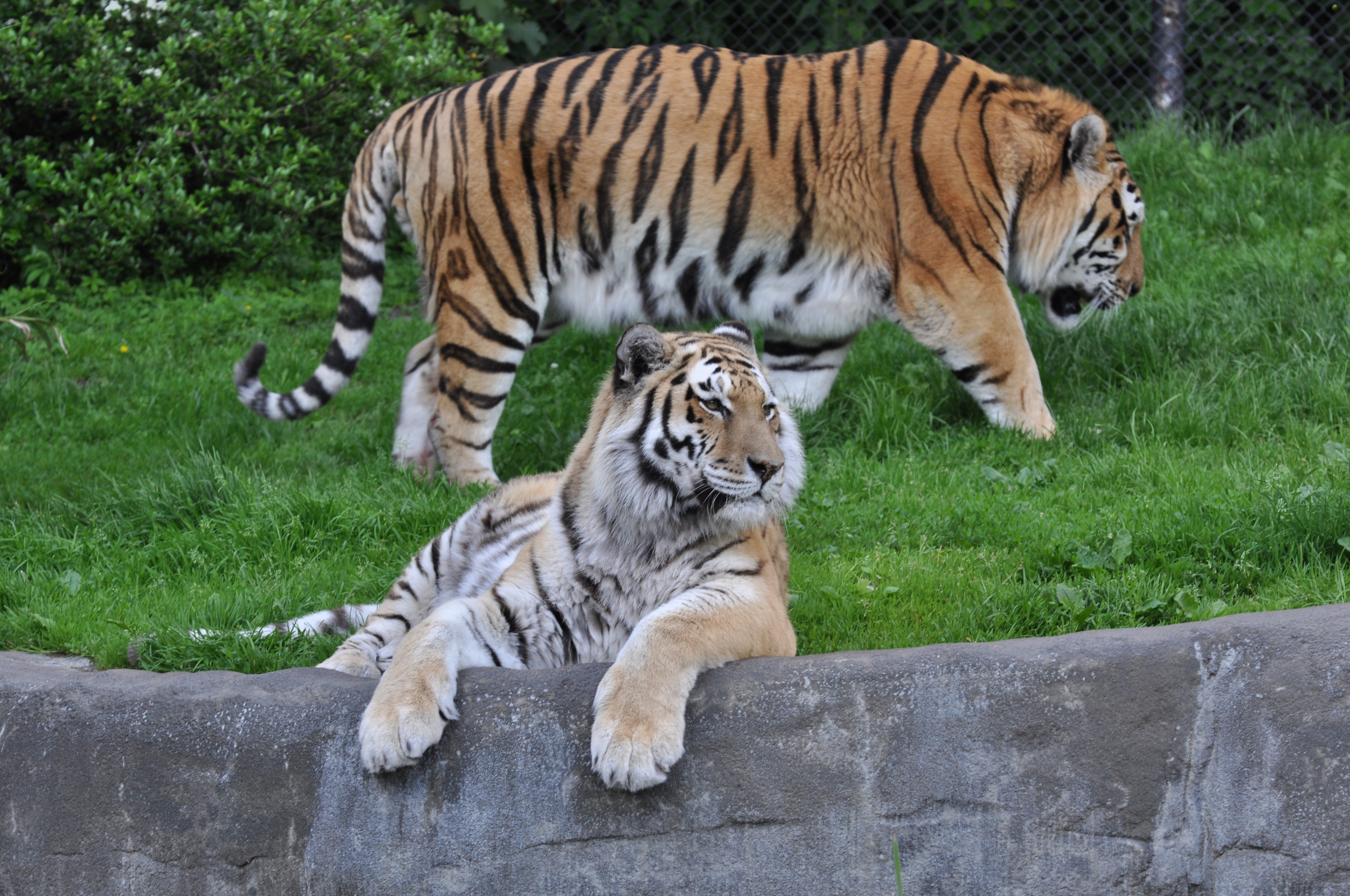 Siberian Tiger in Hagenbecks Tierpark, Hamburg.